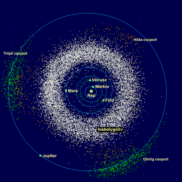 The inner Solar System, from the Sun to Jupiter, with Hungarian labels.